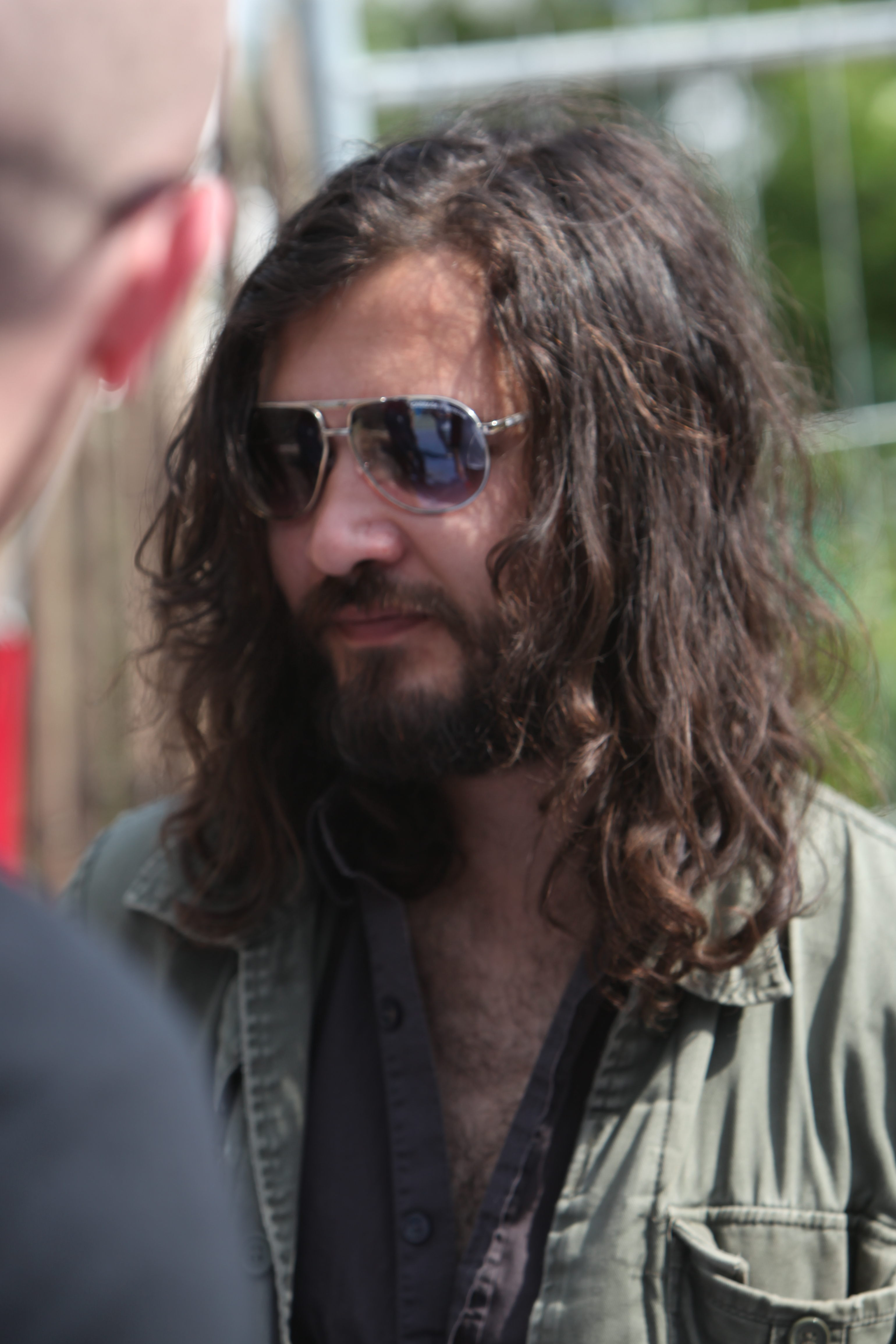 Bruno Fevery with Kyuss at the Eurockéennes de Belfort 2011 The making of this document was supported by Wikimedia CH. (Submit your project!) For all the files concerned, please see the category Supported by Wikimedia CH.